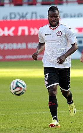 Fegor Ogude playing for FC Amkar Perm against FC Lokomotiv Moscow.